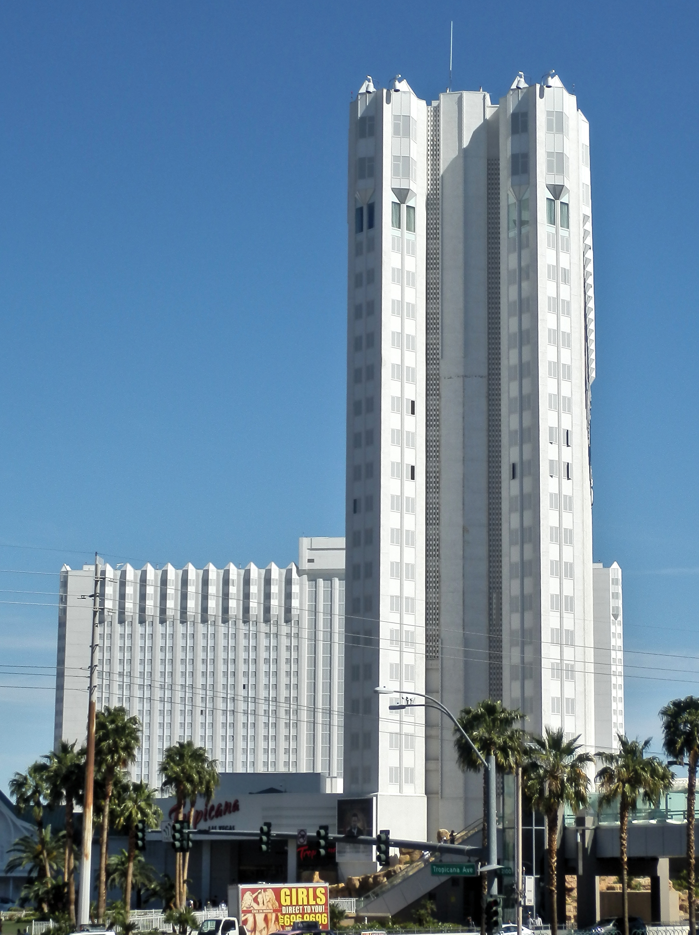 Tropicana in Las Vegas